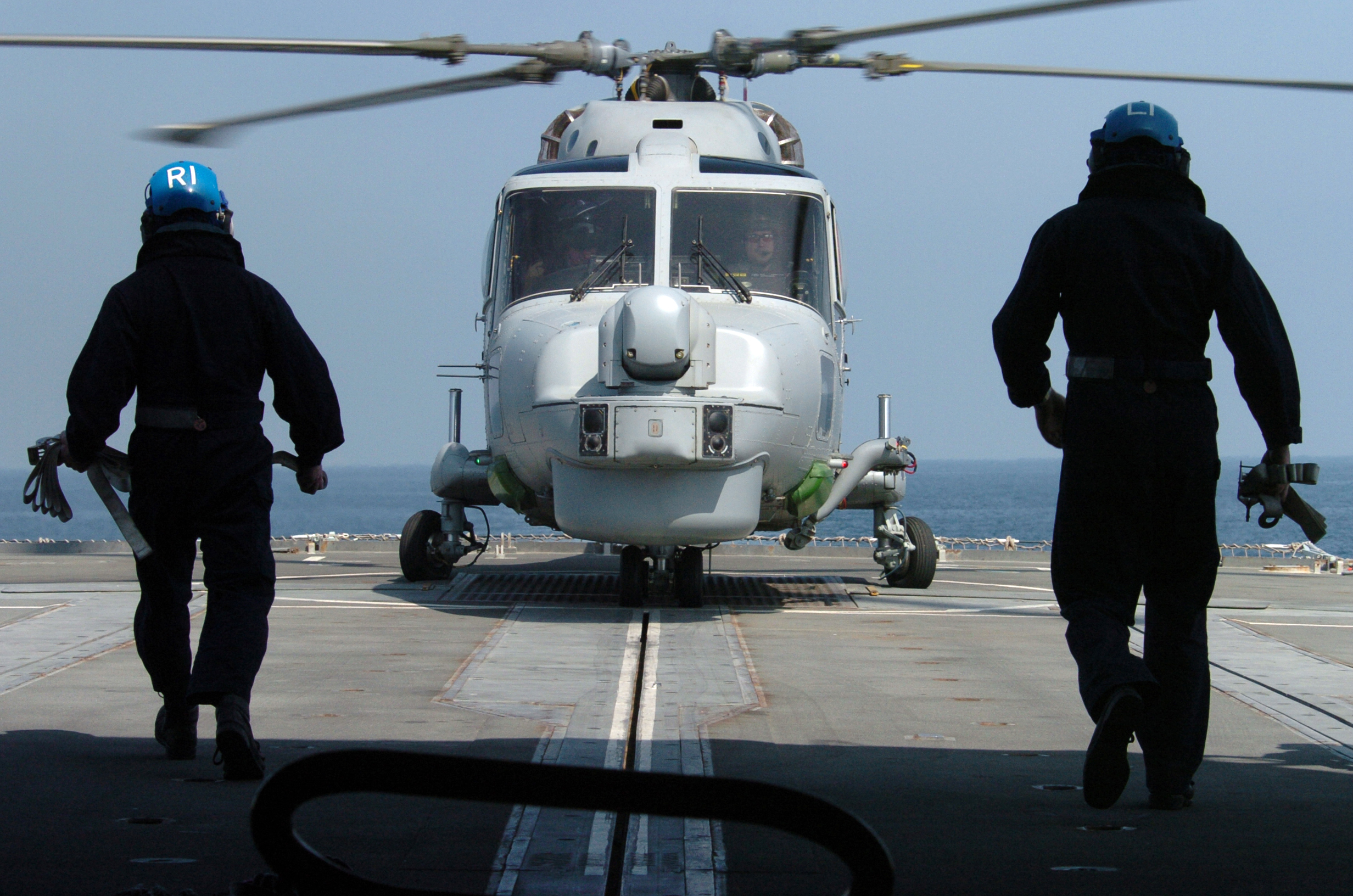 Persian Gulf (Feb. 20, 2005) - Two Royal Navy Sailors prepare to chain-down a Royal Navy Lynx Mk8 helicopter, assigned to 815 Squadron aboard the Royal Navy Type 23 frigate HMS Grafton (F80). The Lynx Mk8 is an anti-surface and anti-submarine helicopter designed to operate from frigates and destroyers of the Fleet. U.S. Navy photo by Photographer's Mate 2nd Class Peter J. Carney (RELEASED)